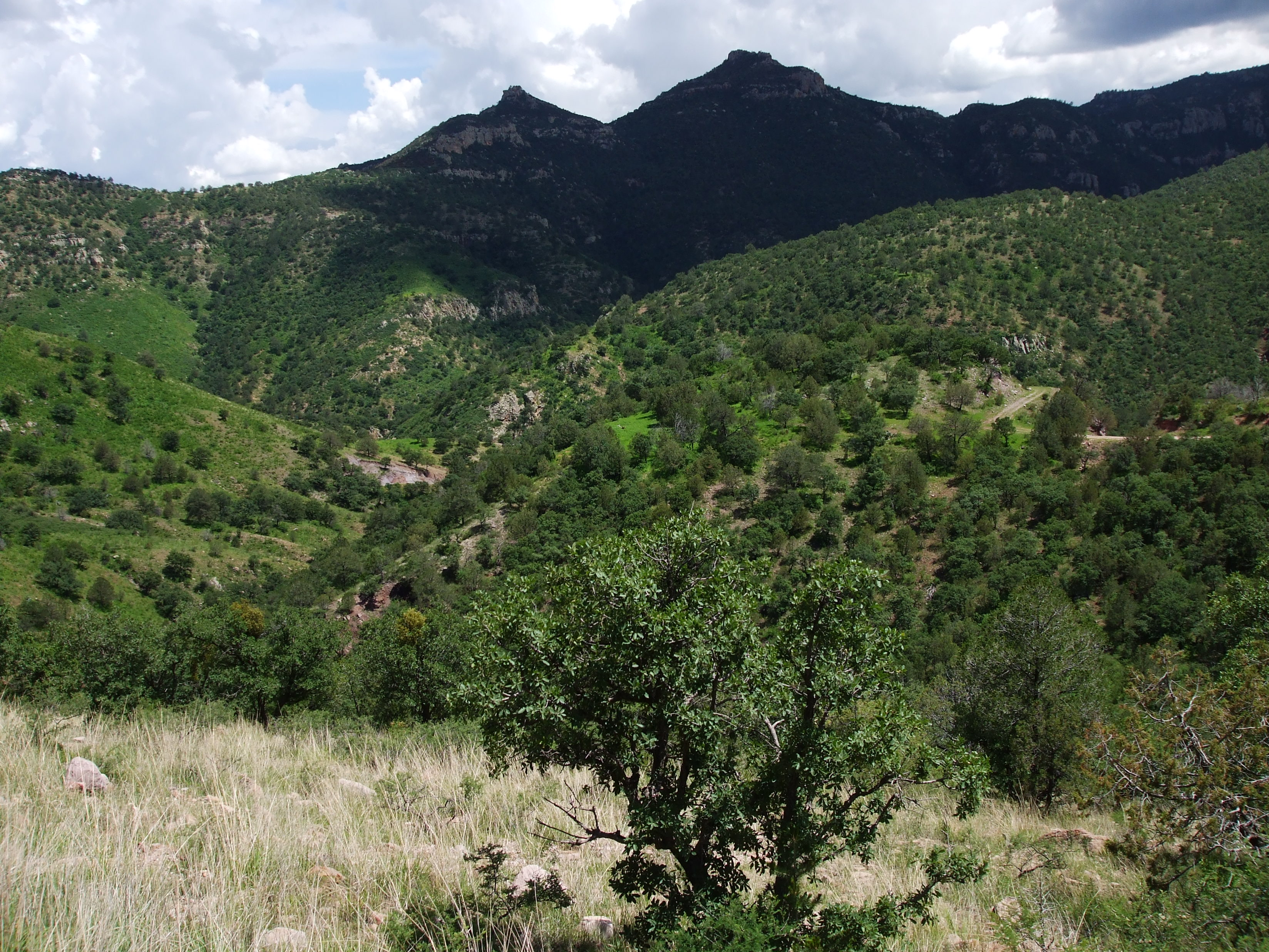 Cumbre Majalca (mountain) and oak woodlands, in Cumbres de Majalca National Park — northwest of the city of Chihuahua, in Chihuahua state, northern México. Within the Sierra de Majalca range of the Sierra Madre Occidental System.